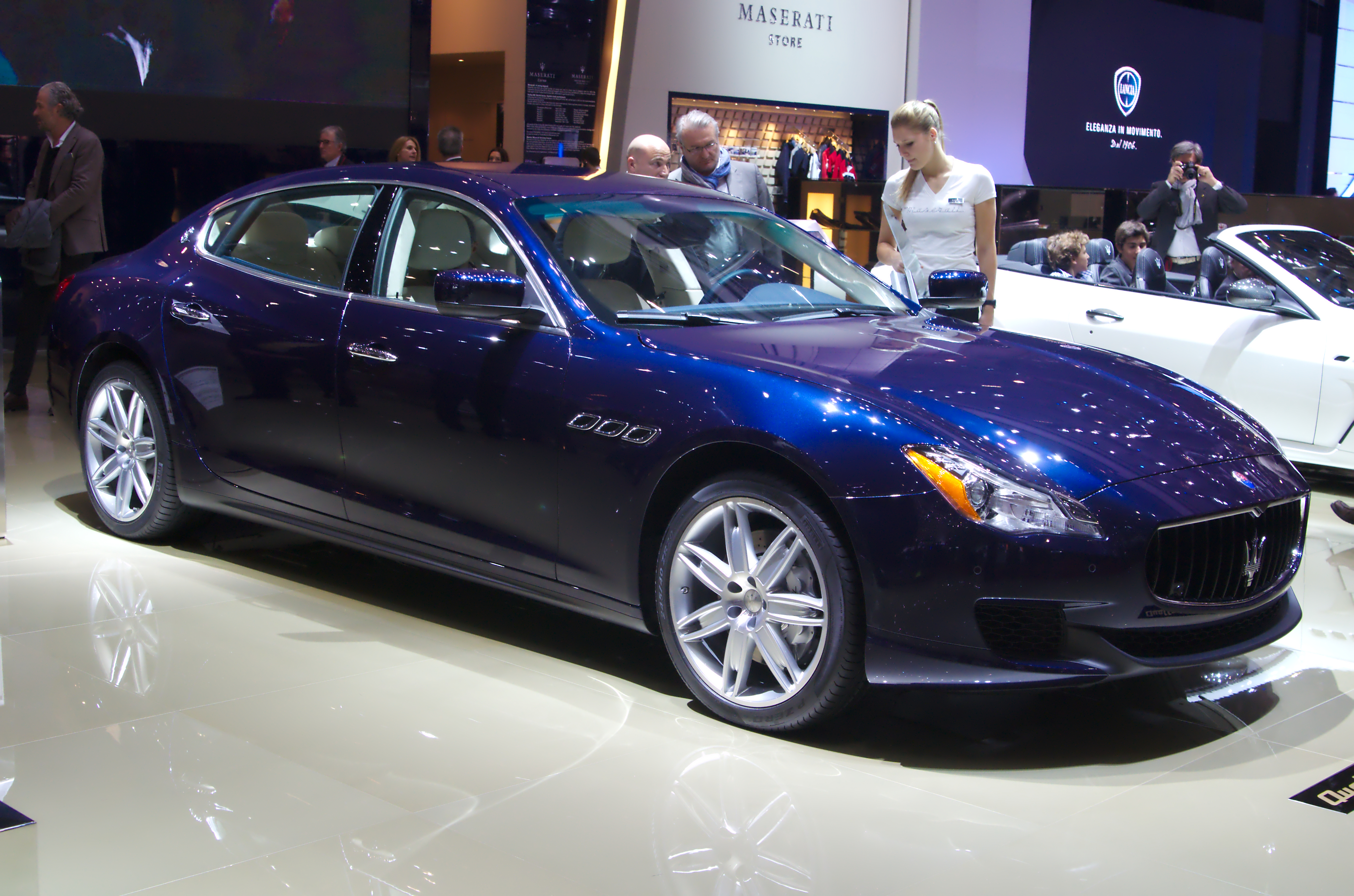 Geneva MotorShow 2013 - Maserati Quattroporte blue